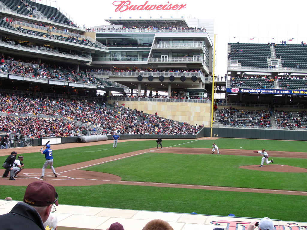 The first-ever pitch at Target Field